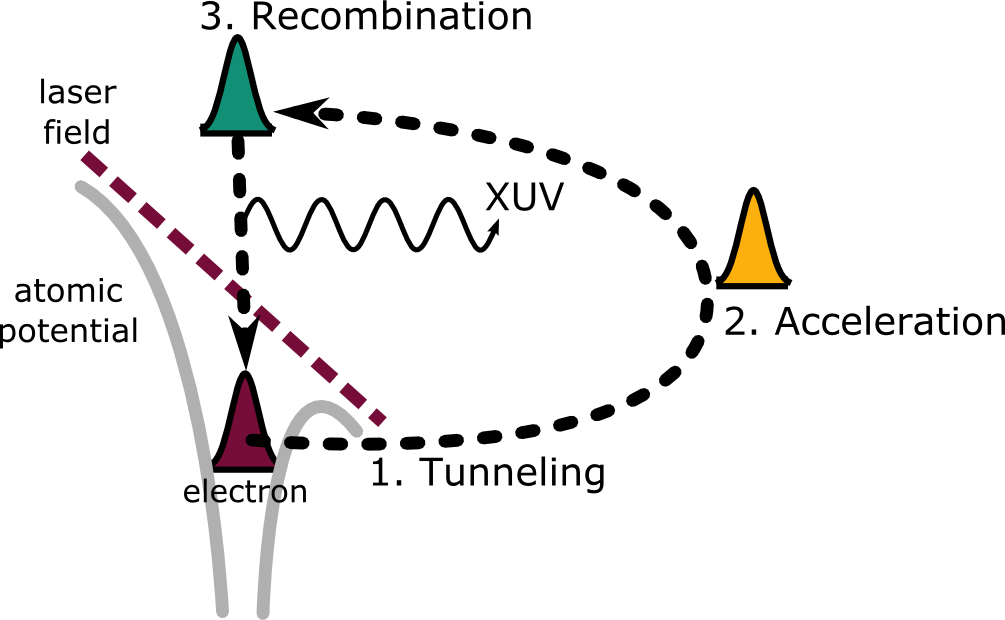 Simple illustration of the semi-classical three-step model of high-order harmonic generation